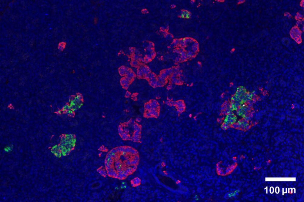 PP cells (red), alpha cells (white) and beta cells (green) in PP cell rich area of Pancreatic Islet.